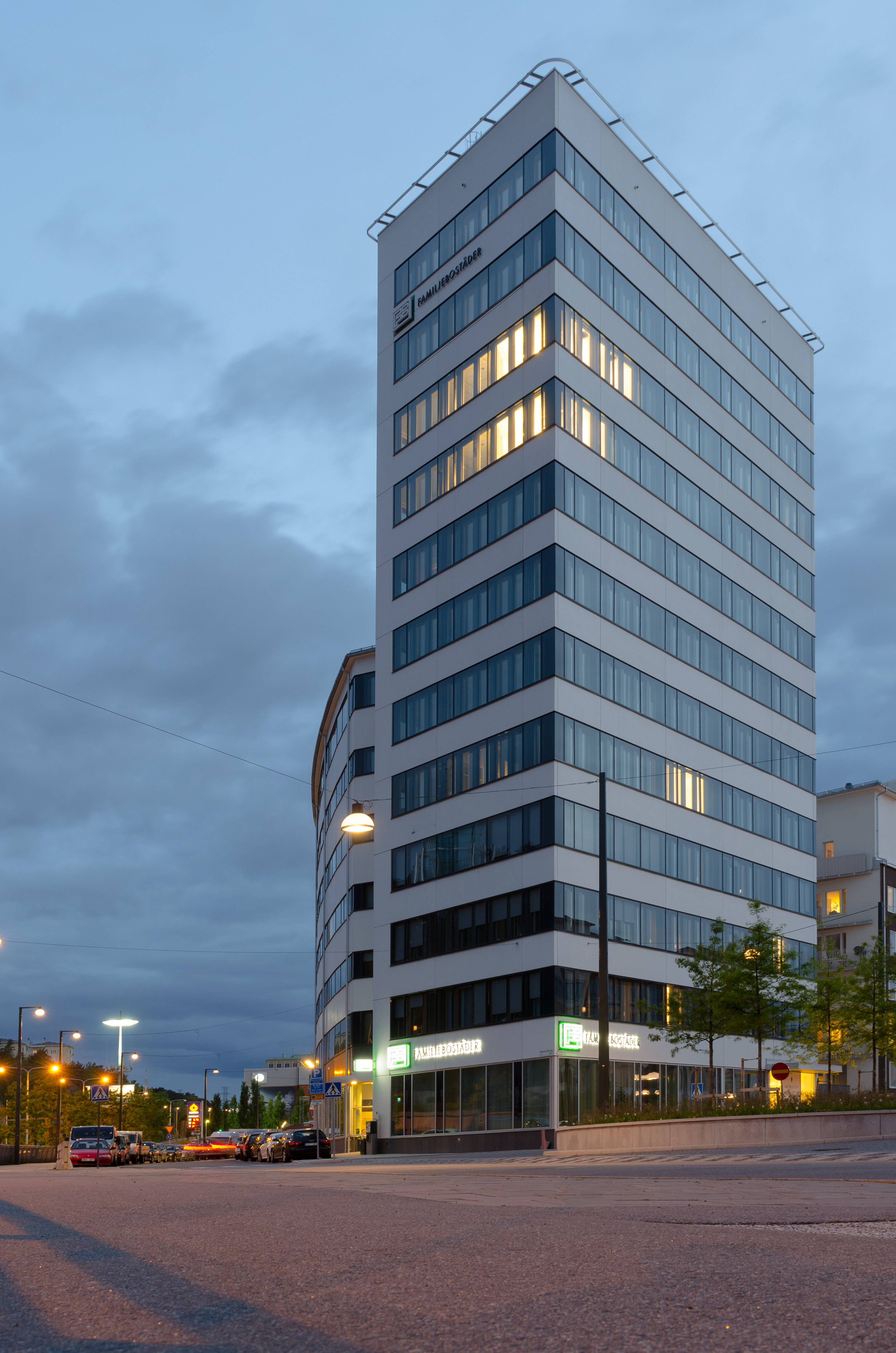 HQ of Familjebostäder. Södra Hammarbyhamnen, Stockholm. Familjebostäder is a public housing corporation wholly owned by the Municipality of Stockholm